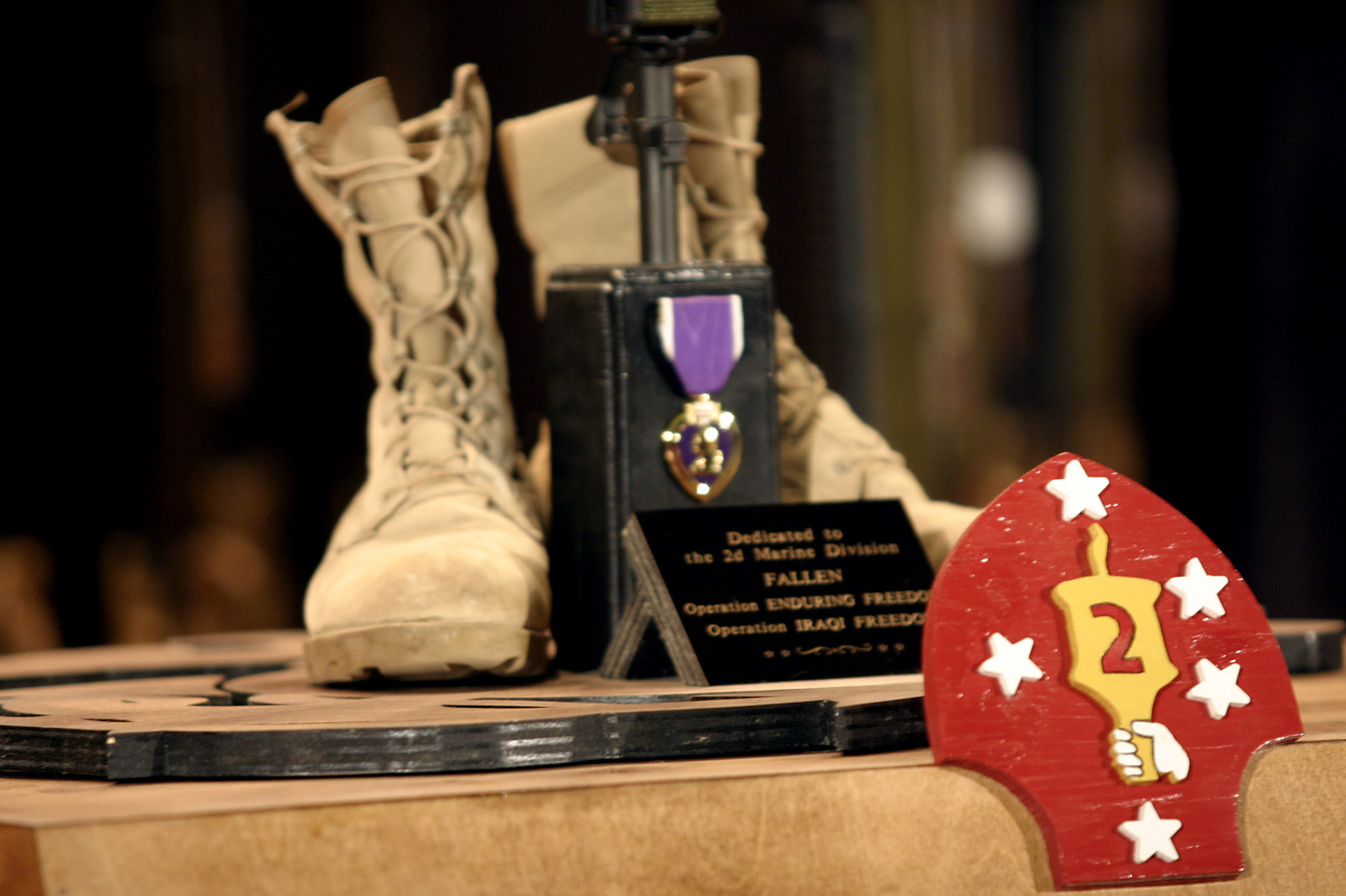 050119-M-2607O-003 MARINE CORPS BASE CAMP LEJEUNE, N.C. (January 19, 2005) - Memorials for 52 Marines and 1 sailor were positioned on the stage at the base theater Jan. 19 for a 2d Marine Division memorial service. The theater was filled to capacity with family friends and fellow service members that wished to pay their last respects. (Official U.S. Marine Corps photo by Pfc. Christopher J. Ohmen)